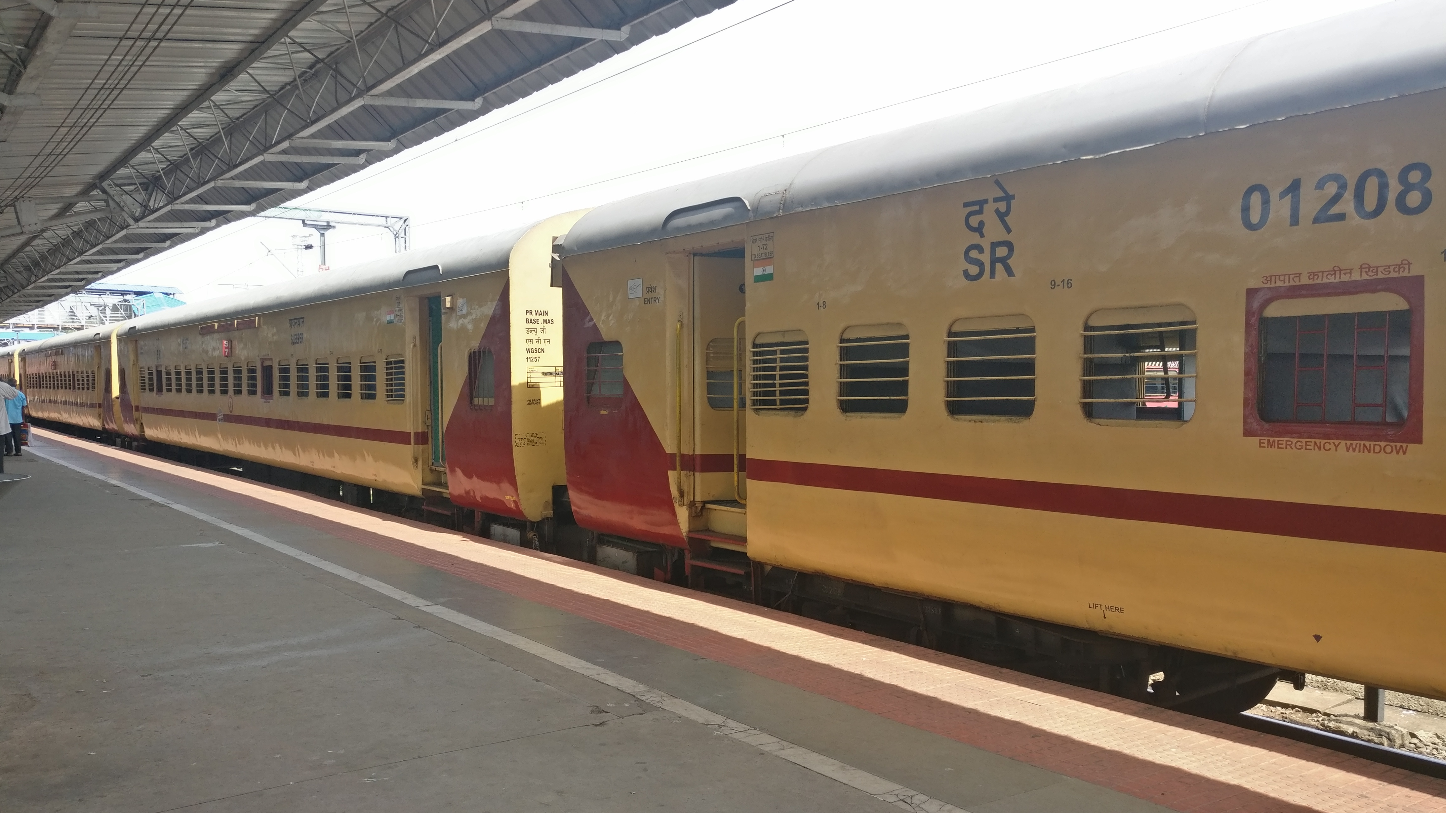 The Chennai Egmore-Kollam Junction Express (16101/16102) is a daily train that runs between Chennai Egmore and Kollam Junction railway station in India